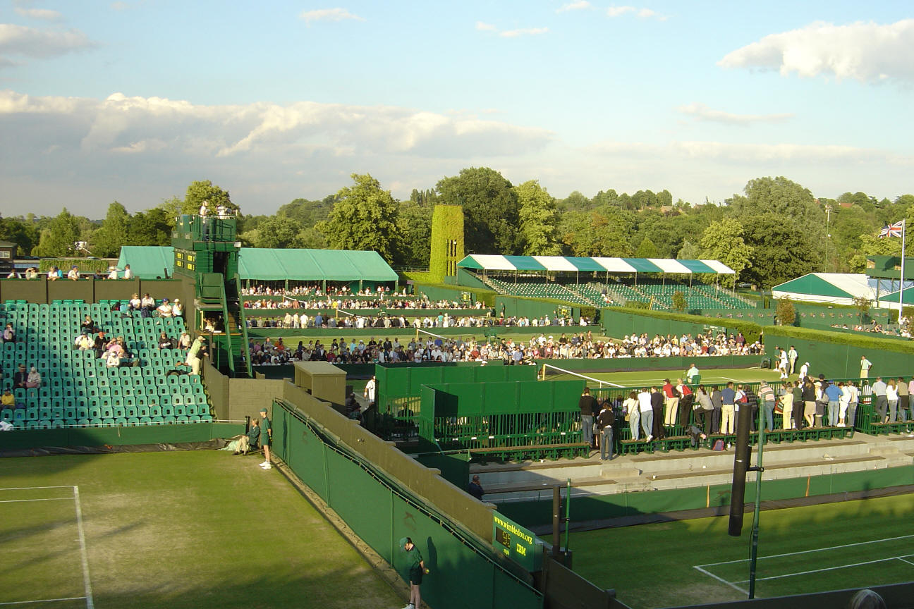 Taken from the standing area on court number 2 on the evening of the 1st Friday in the 2004 Championships. ricjl 00:32, 2 Jul 2004 (UTC)